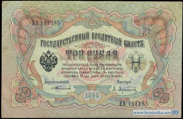 Russian Empire banknote 3 rubles version of 1905 year. Timashev